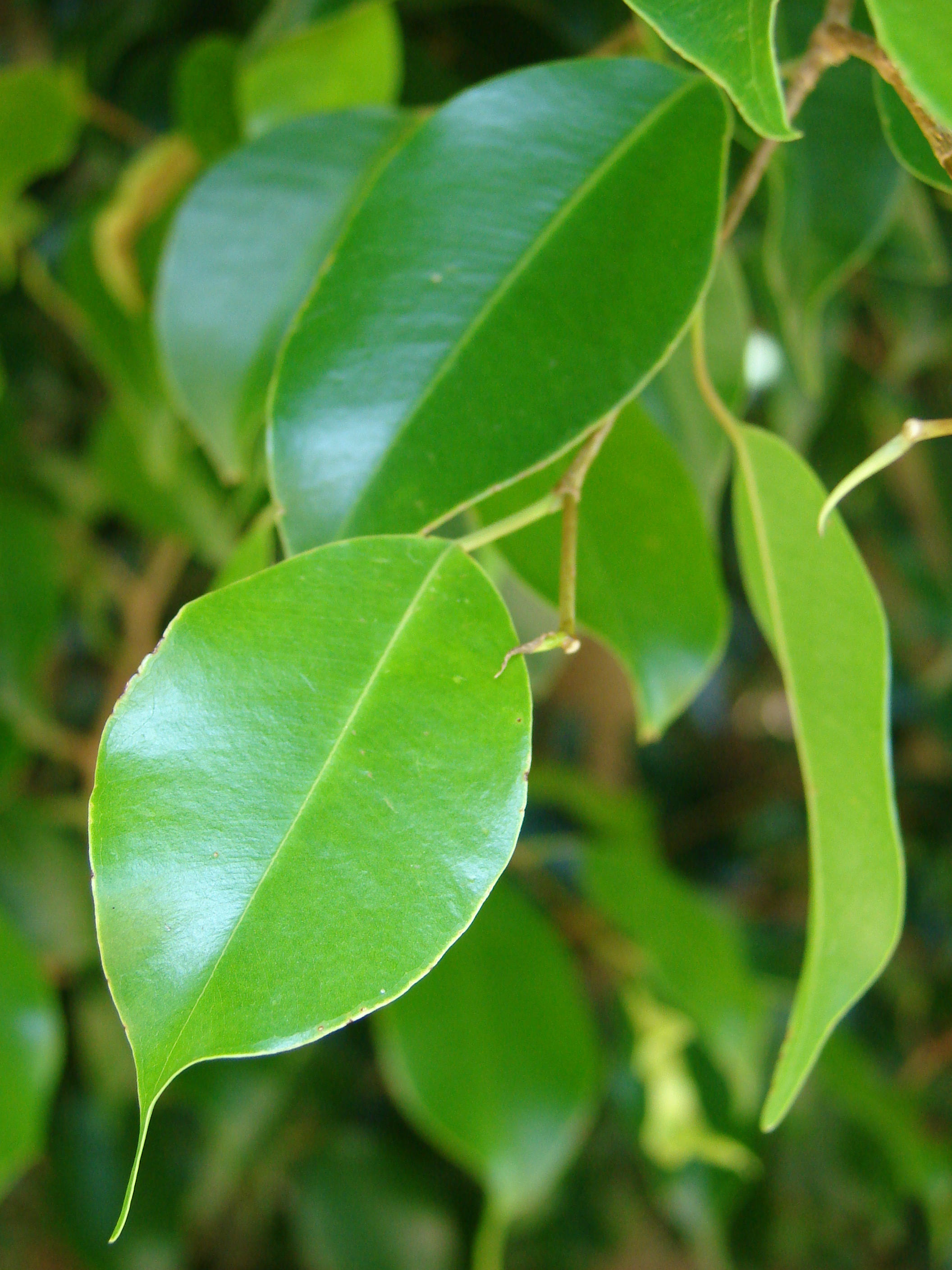 Ficus benjamina (leaves). Location: Maui, Makawao